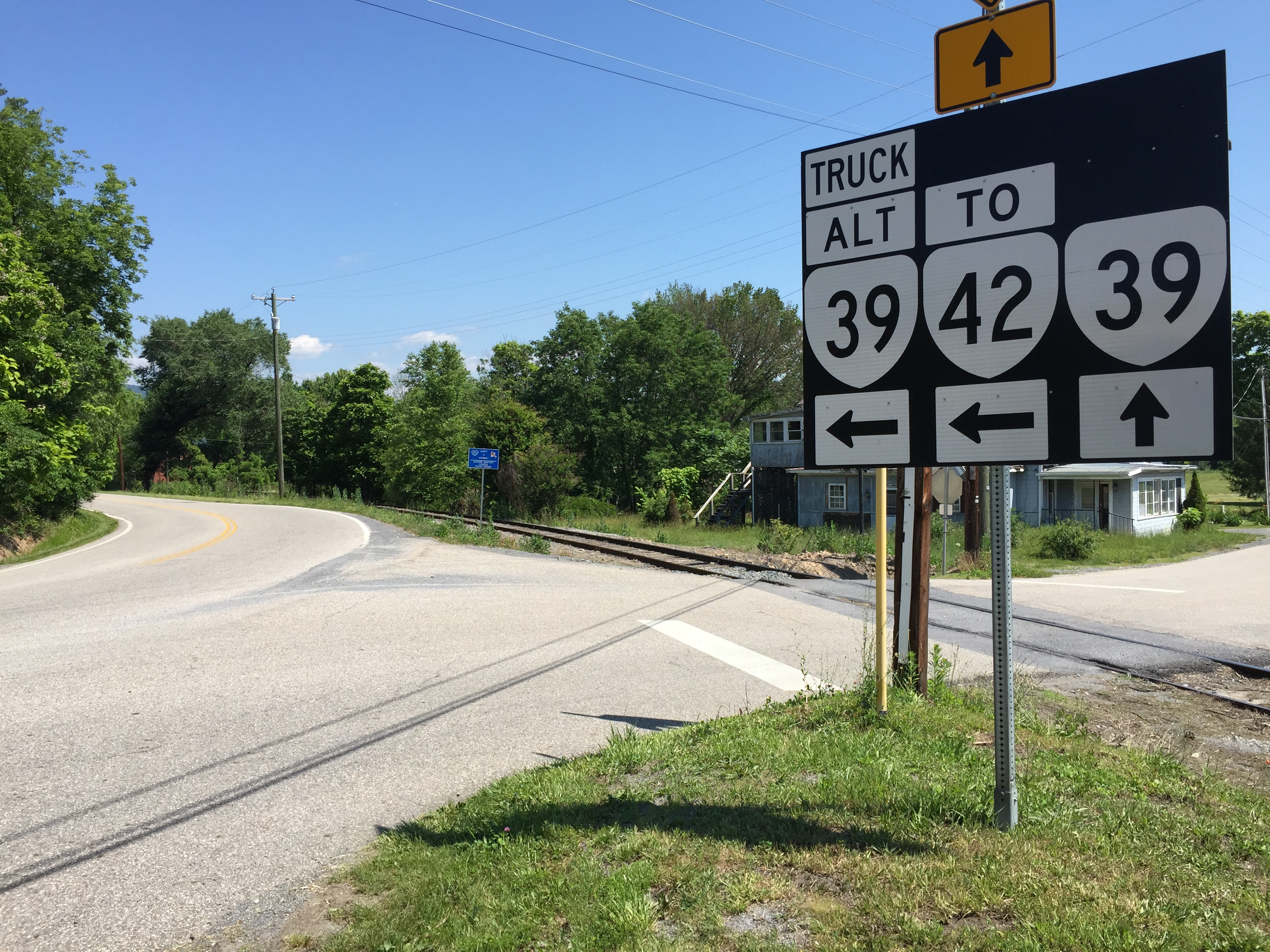 View west along Virginia State Route 39 Alternate at Virginia State Route 39 (Maury River Road) in Goshen, Rockbridge County, Virginia